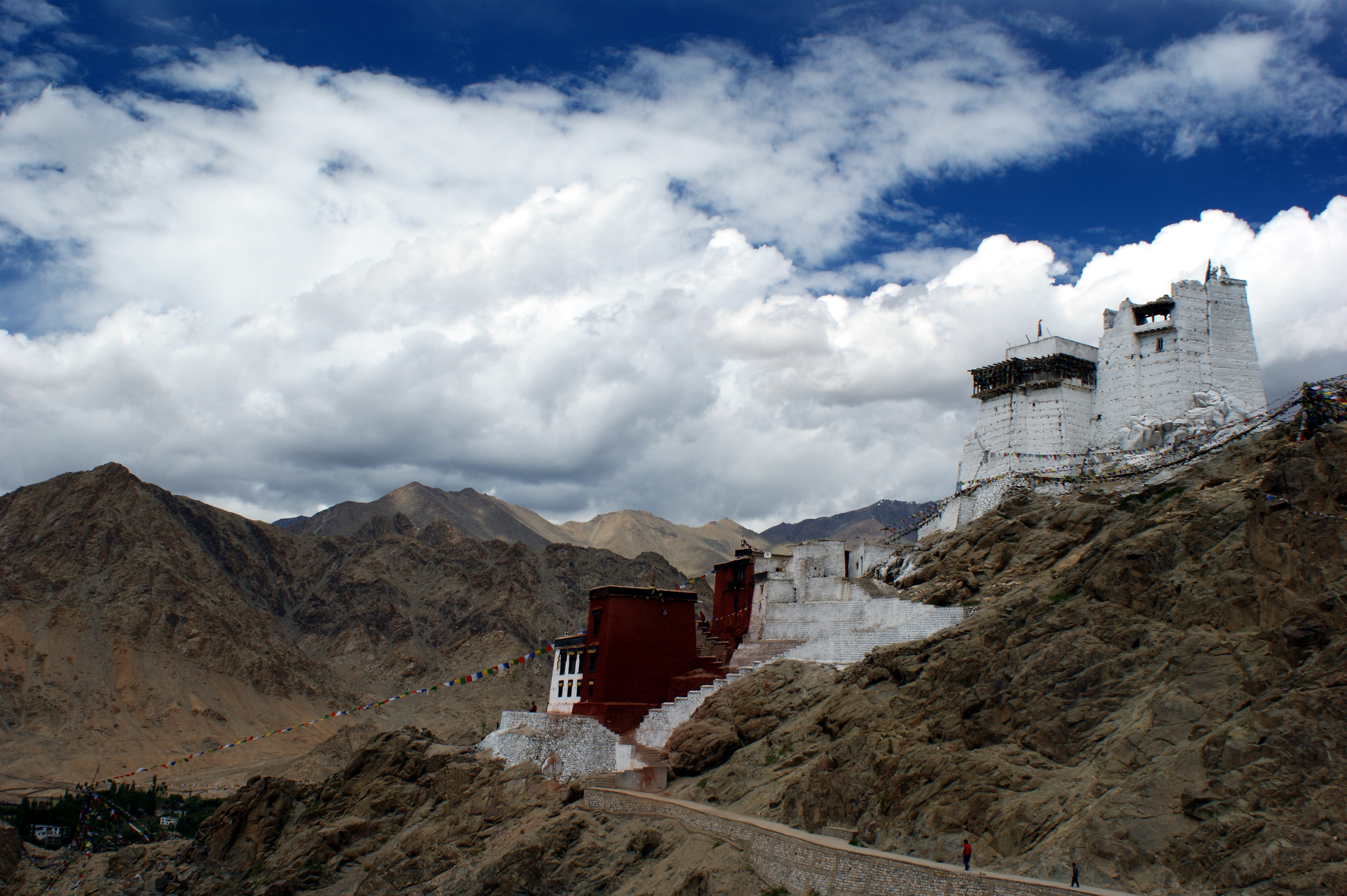 Namgyal Tsemo Monestry as seen from nearby hill (see coordinates)